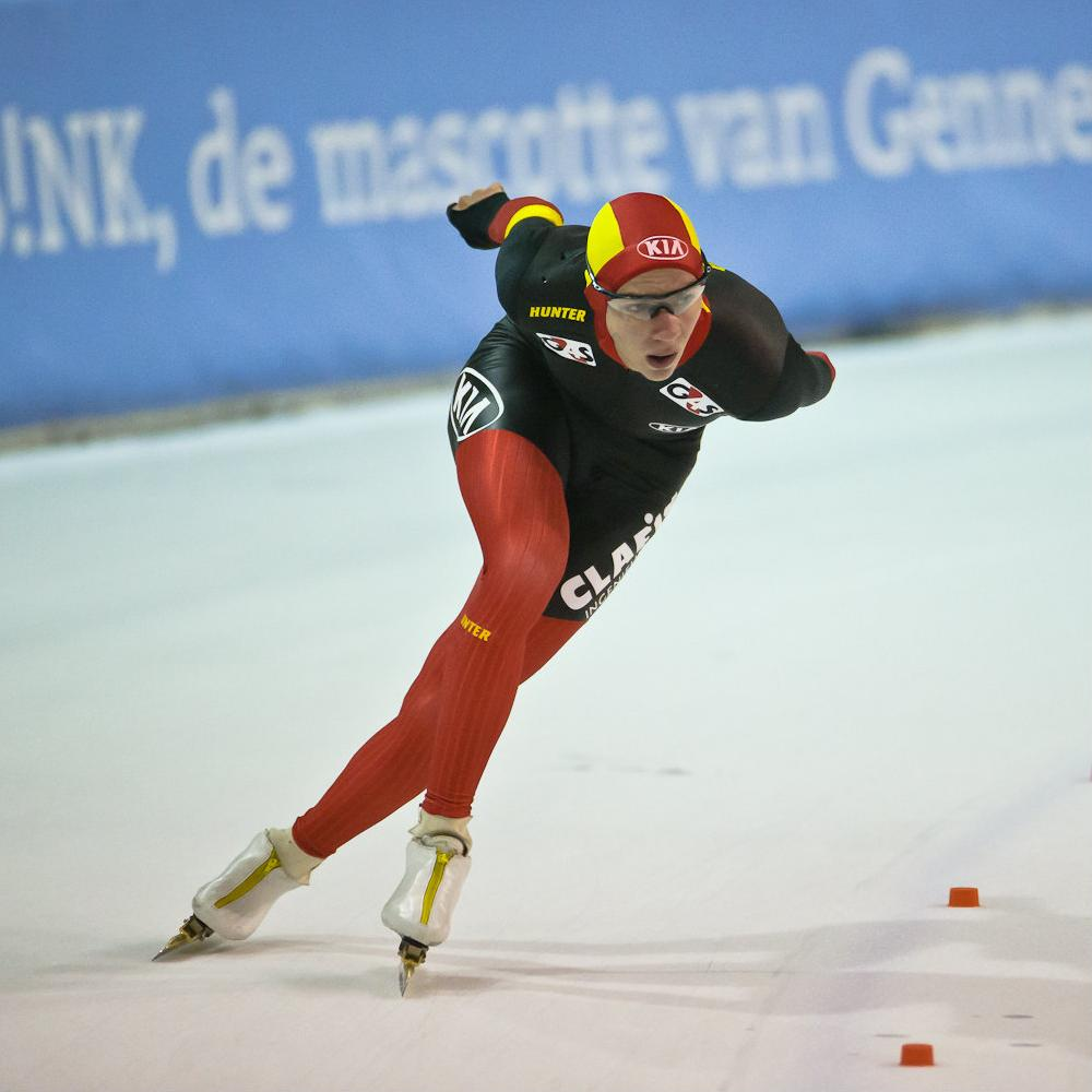 Bart Swings (image without border)